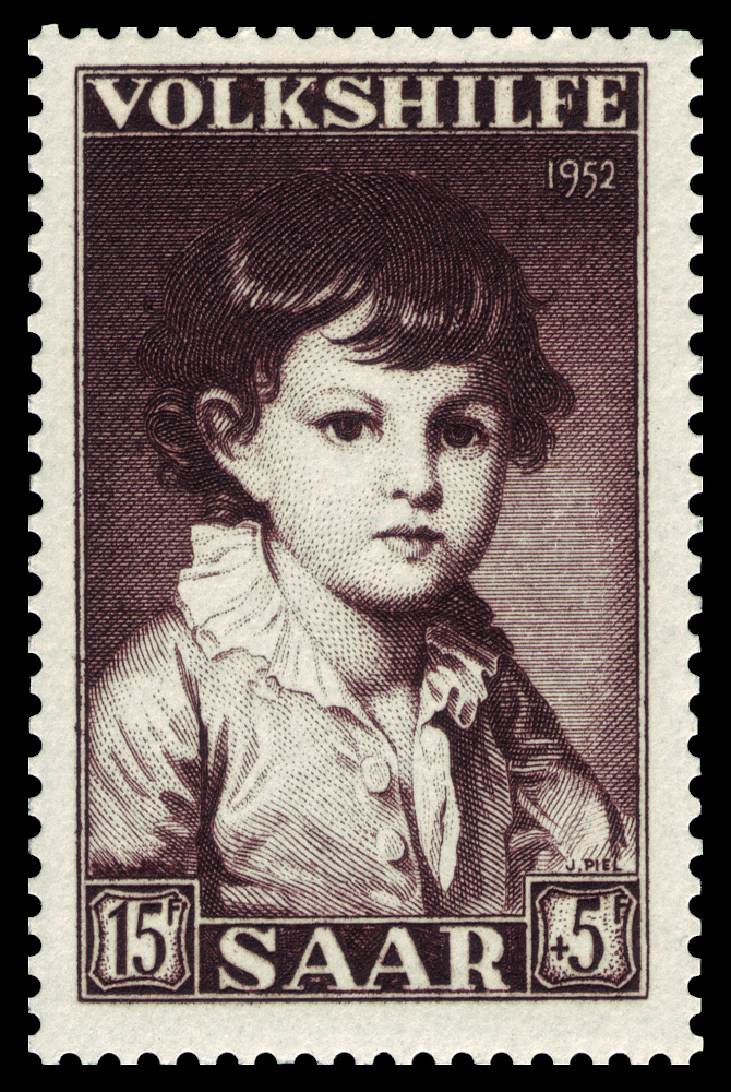 Volkshilfe, additional social fees